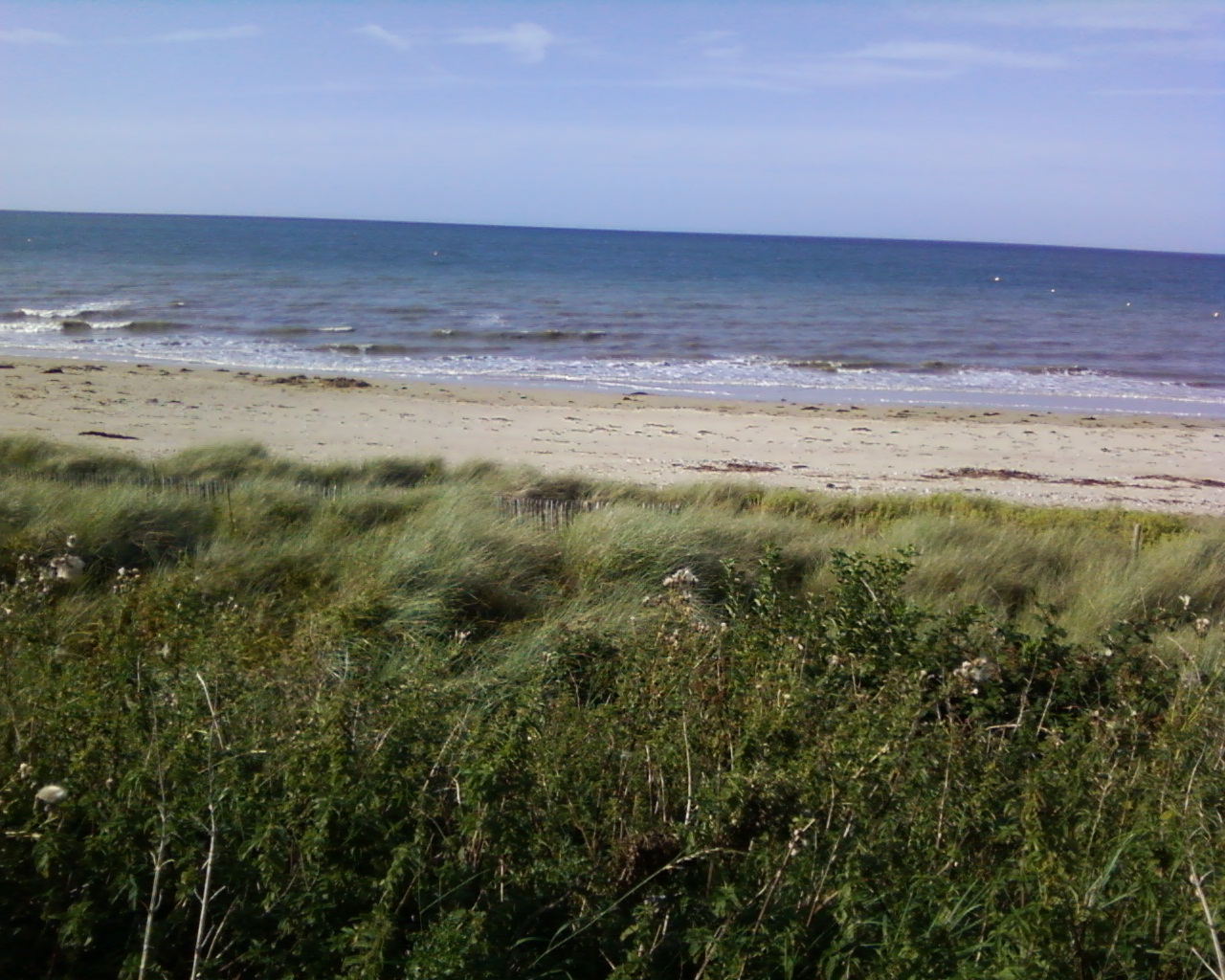 beach of Graye-sur-mer